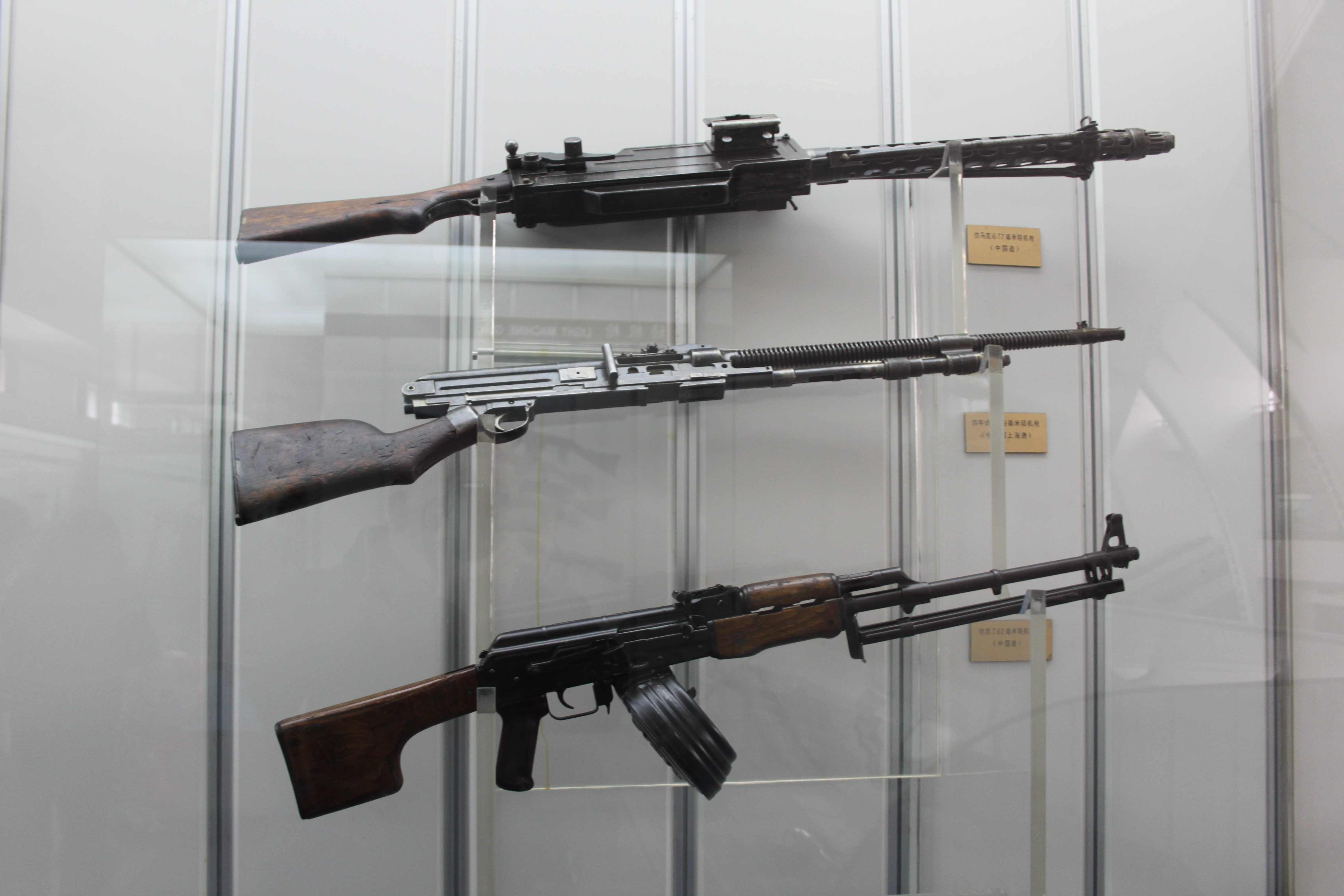 Military Museum: Modern Weapons, Small Arms Gallery. Complete indexed photo collection at .